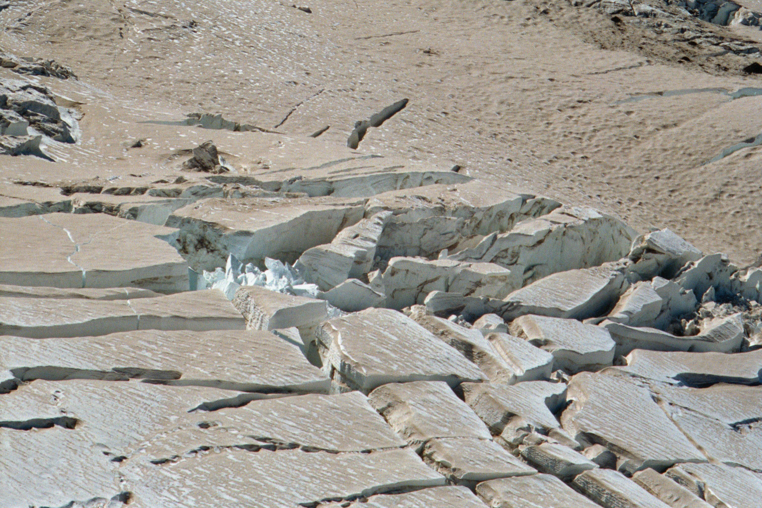 Seracs and crevasses near 10000 feet on the Winthrop Glacier. The brown tint of the ice surface is due to dust from nearby rock slides.